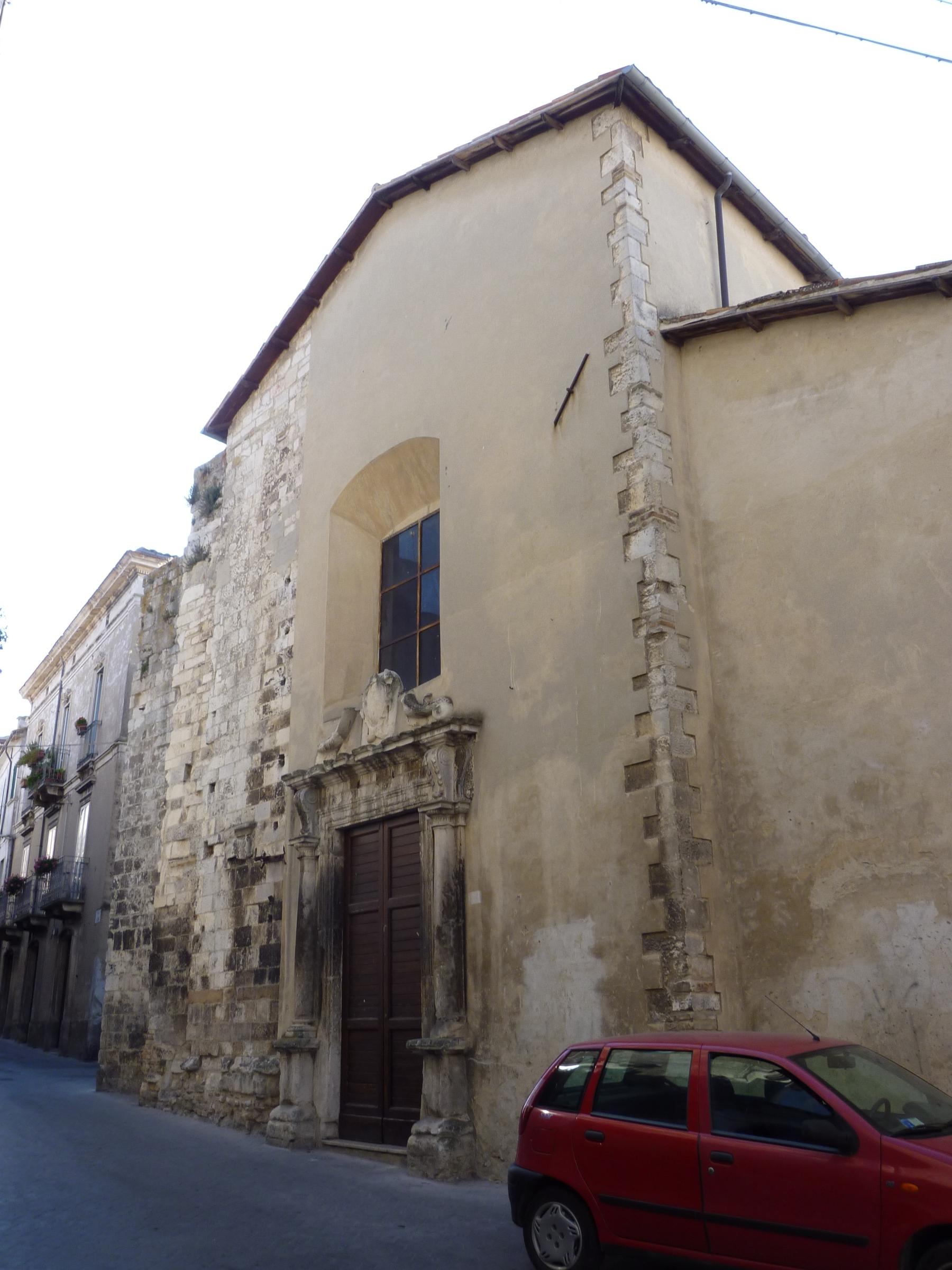 The church of San Silvestro in Guardiagrele, in the province of Chieti, Abruzzo